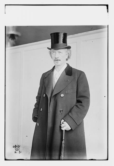 Paderewski in a coat and top hat.